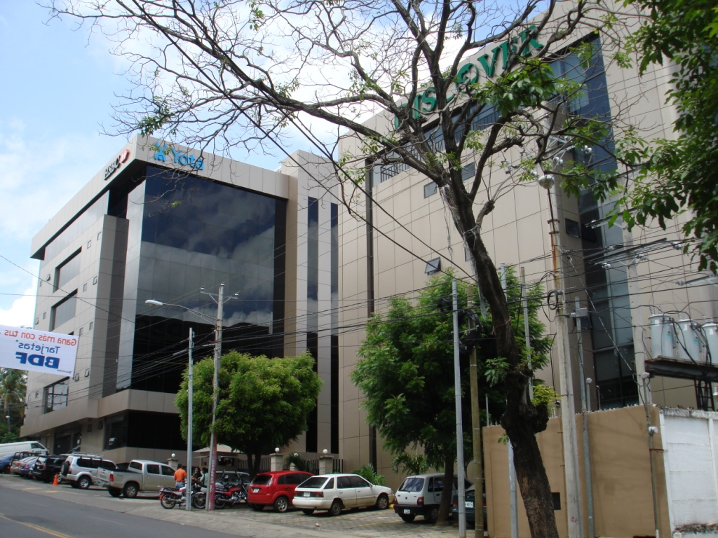 YOTA's offices in Managua, Nicaragua